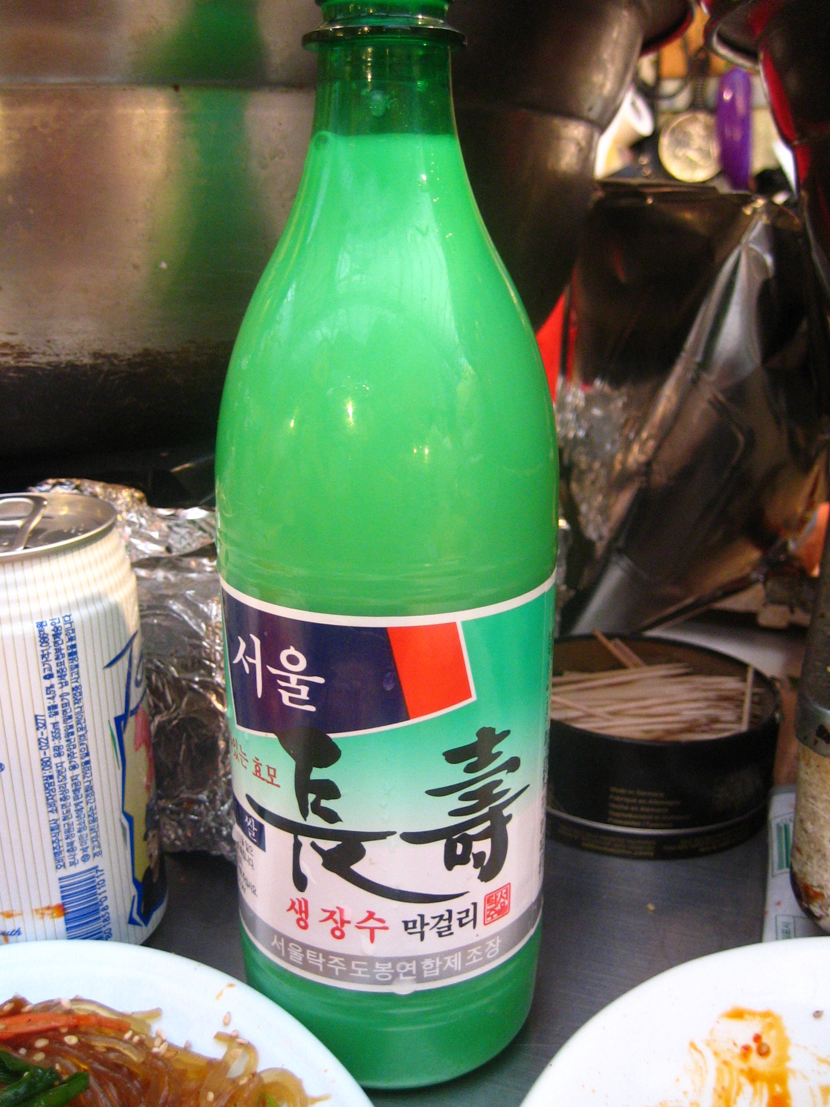 Makgeolli bottle, Korean traditional alcoholic beverage made from rice